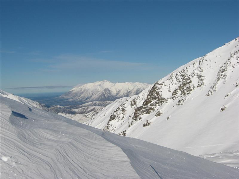 View to South East, from the Ski Field